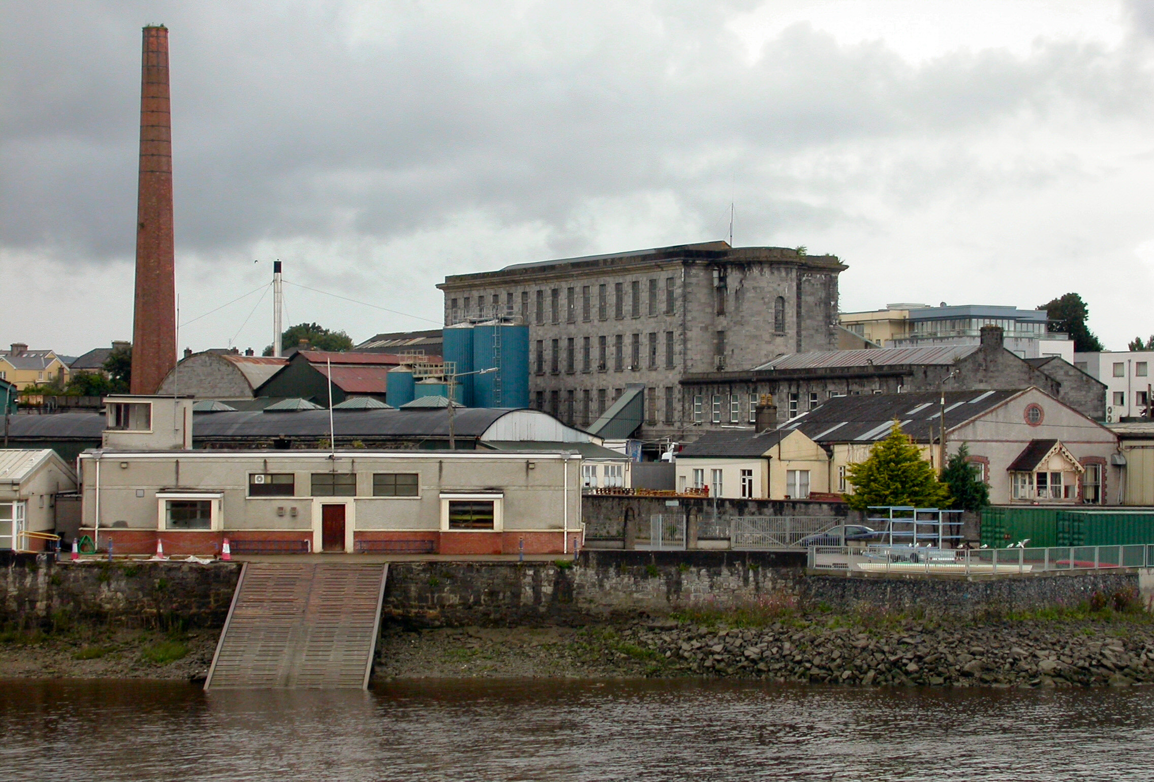 Monarchan Cleeve's, Luimneach